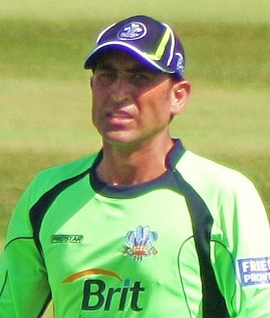 Younis Khan in the field for Surrey during a Friends Provident t20 match against Somerset at the County Ground, Taunton.